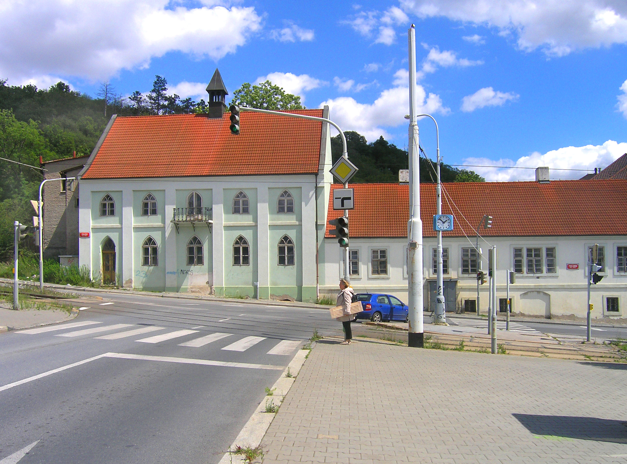 Intersection of Pod Lisem street and Trojská street at Troja, Prague